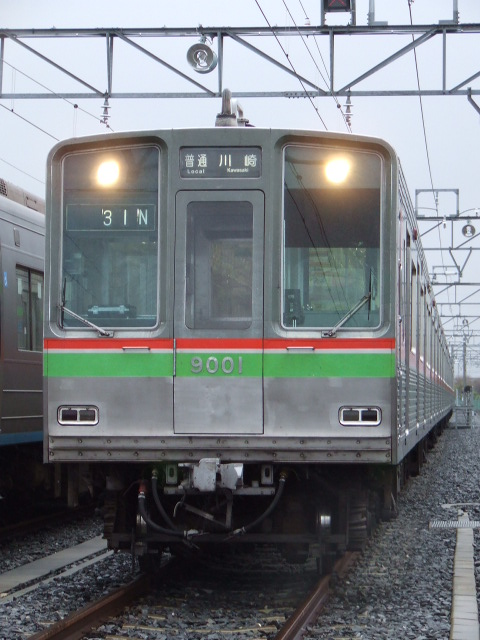 Chiba New Town Railway 9000 series EMU set 9001 at the Hokuso Inba Depot